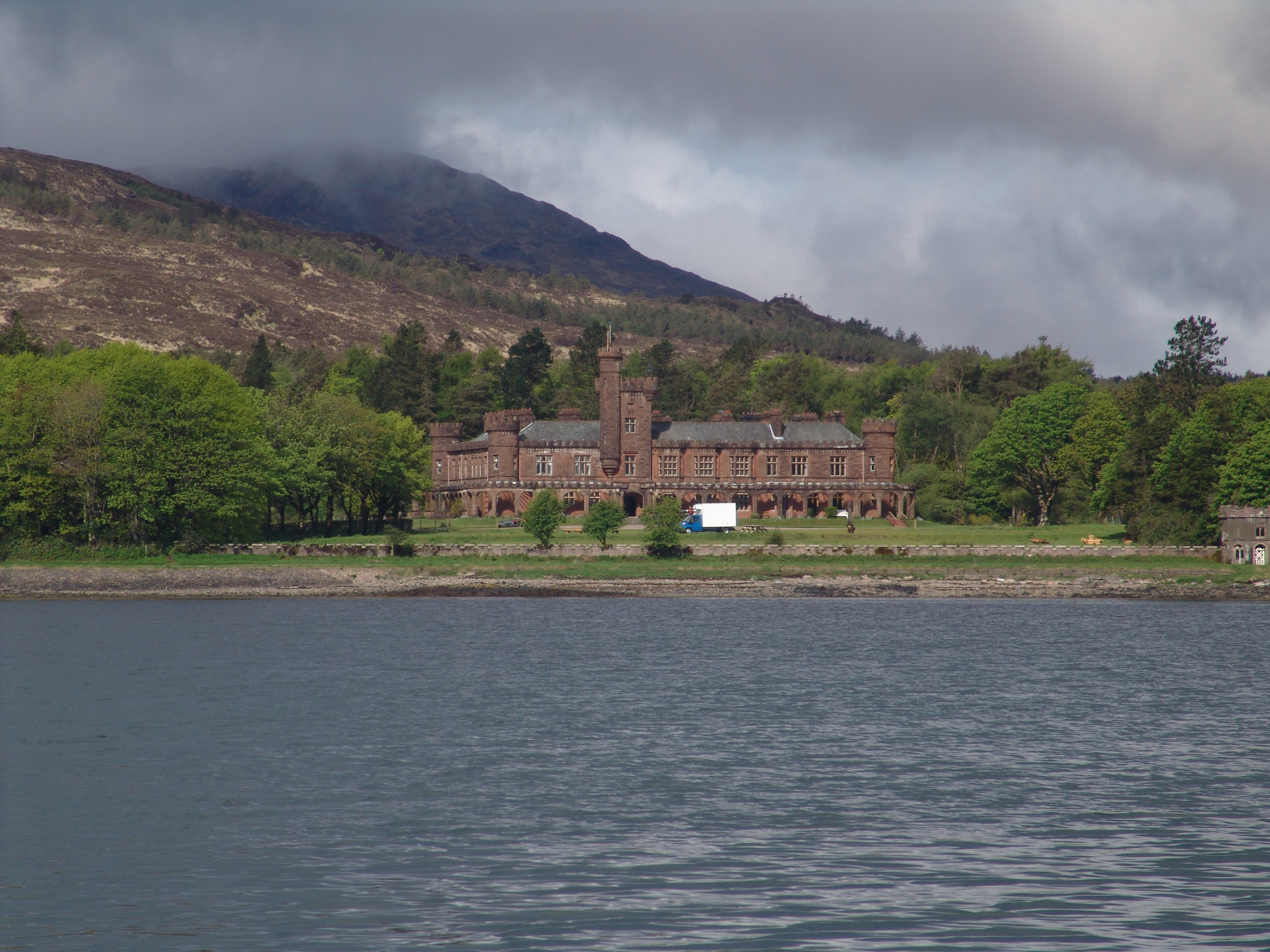 See where this photo was taken at maps.yuan.cc.